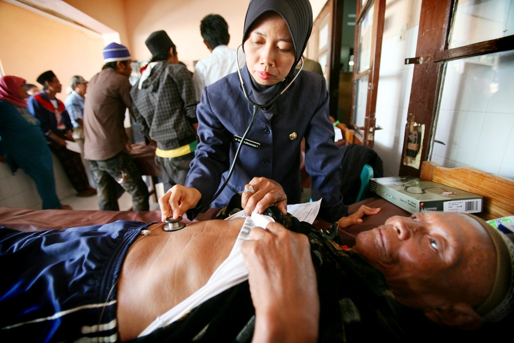 An Indonesian nurse examines a patient at a clinic in Baluran, Indonesia, using a stethoscope to listen to the patient's intestines.